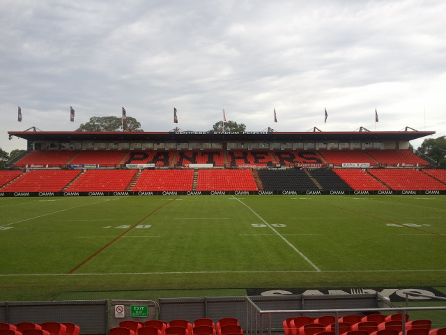 Centrebet Stadium, Penrith